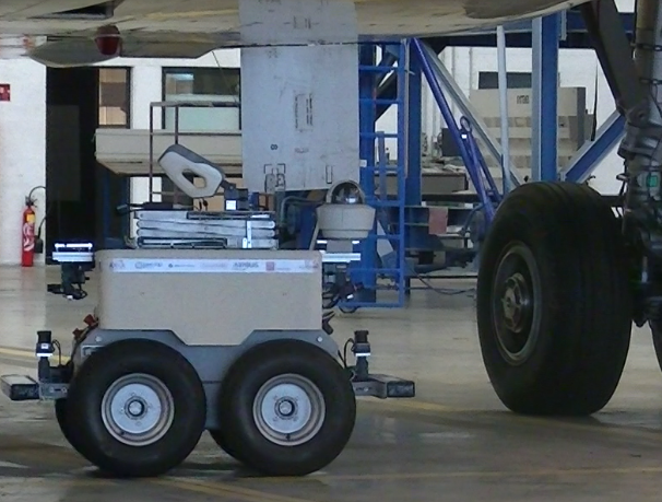 Air-Cobot, the collaborative mobile robot able to inspect aircraft during maintenance operations. In the picture, the robotic platform is evolving under an Airbus A320 in the hangar of Air France Industries, Toulouse, France.